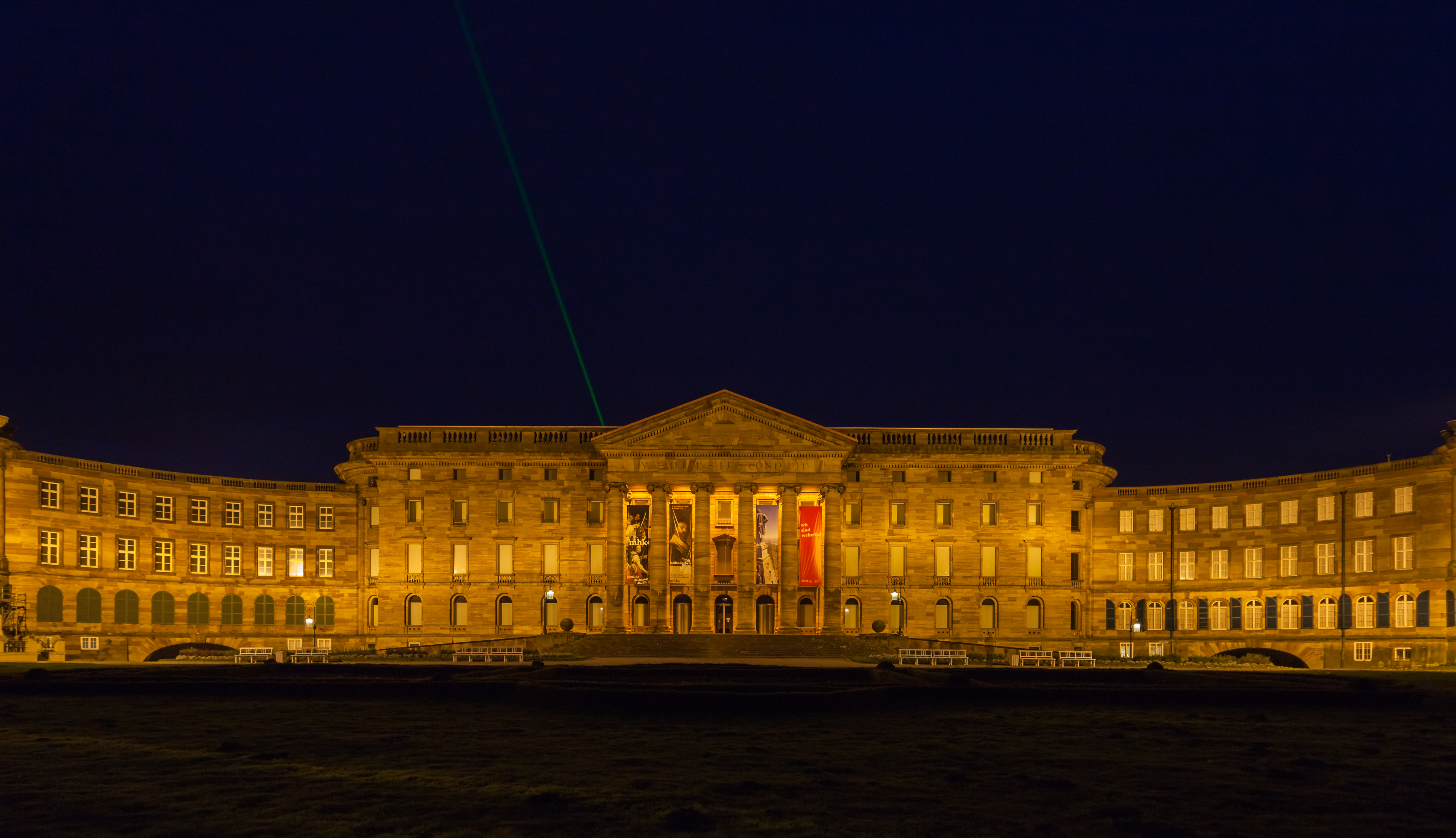 Wilhelmshöhe Palace, Kassel, Germany